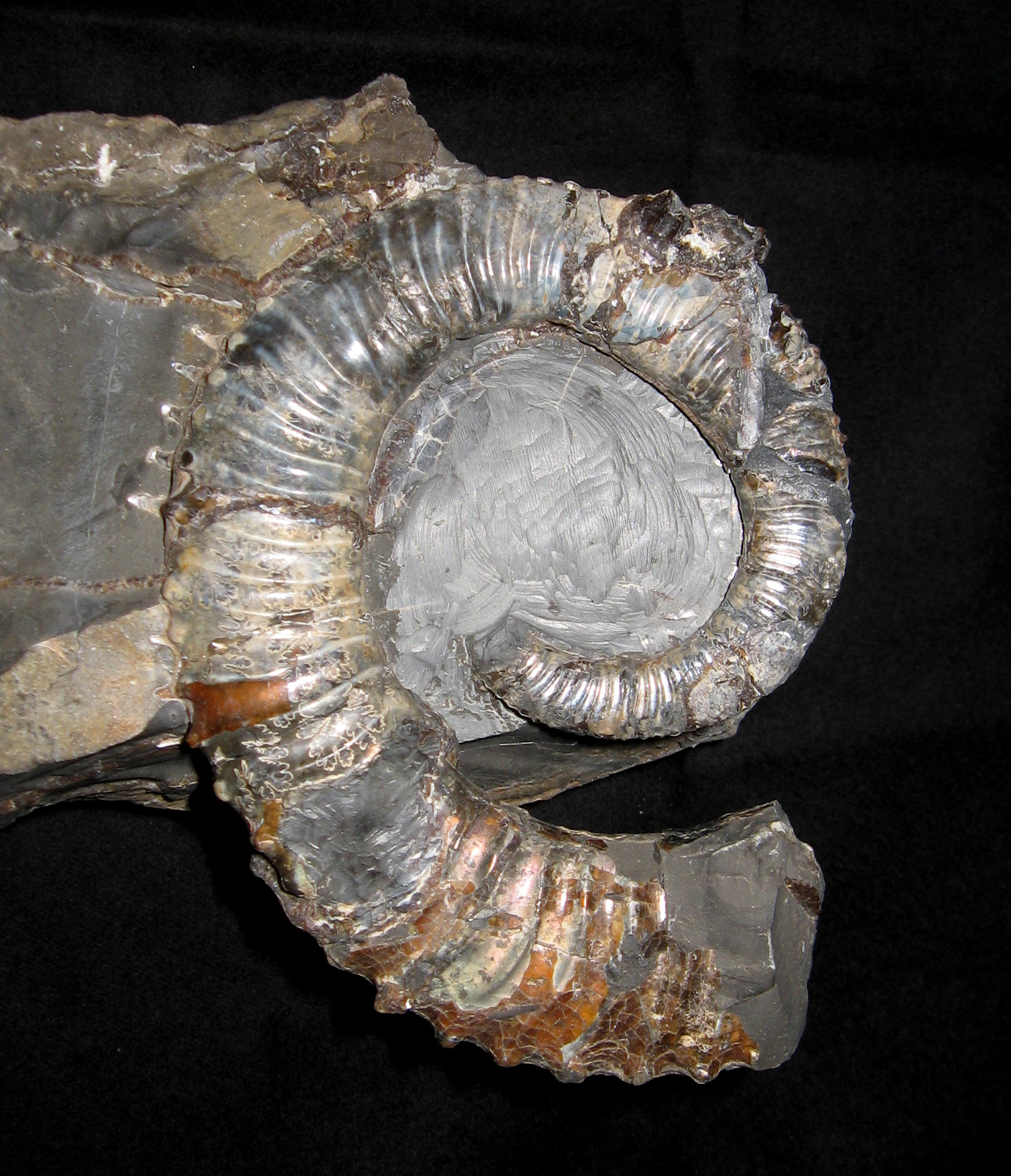 A fossil of Exiteloceras jenneyi on display at Dinoday 2009.